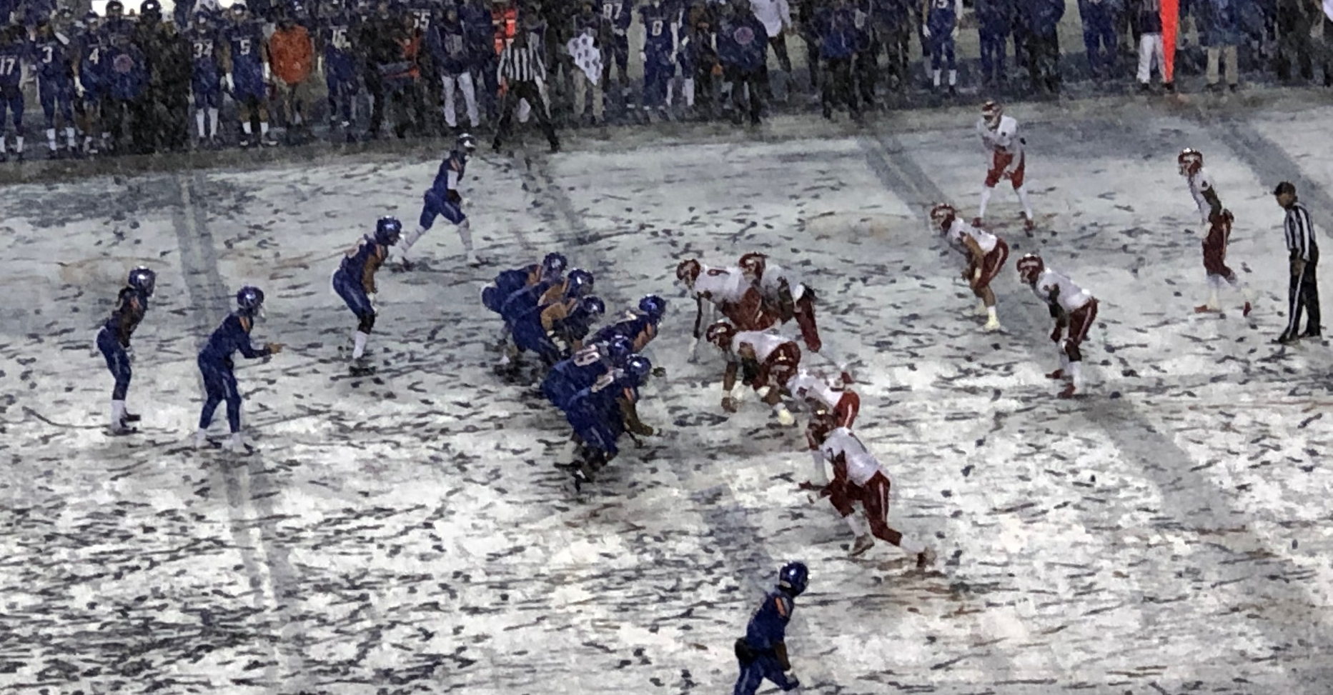 Boise State on offense in the second quarter during the Mountain West Football Championship Game vs Fresno State at Albertsons Stadium in Boise, Idaho on December 1, 2018.